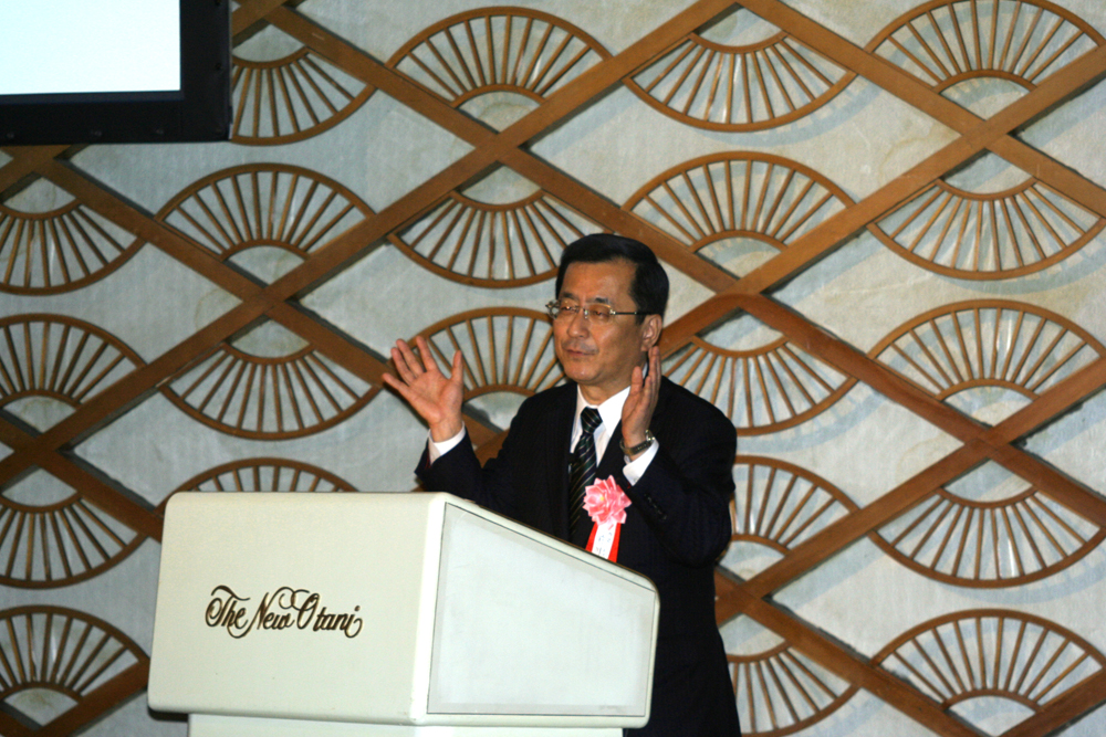 Kiyoshige Maekawa, Senior Vice-Minister of Cabinet Office, attended a seminar at the Hotel New Otani in Chiyoda Ward, Tōkyō Metropolis on November 15, 2012. (For terms of use, see 金融庁ウェブサイト利用ルール： 金融庁.)